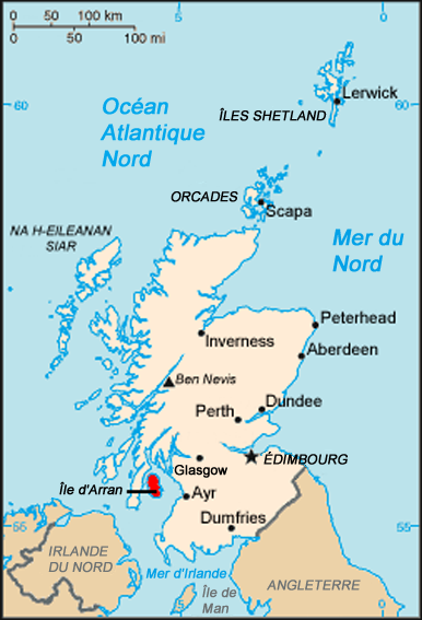 Map of Scotland indicating the Isle of Arran.